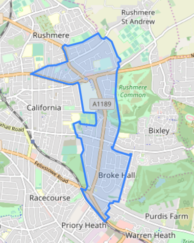 Open Street Map with area shaded blue for Bixley Ward, Ipswich